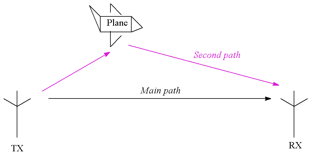 A diagram which I drew to explain some effects seen in TV systems, this for the article on ghosting an effect seen in AN UHF TV systems where a second image is seen displaces horizontally (normally to the right) of the main image.